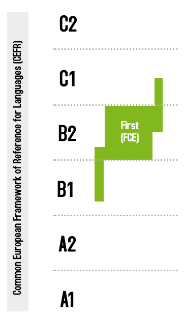 Comparison between the exam Cambridge